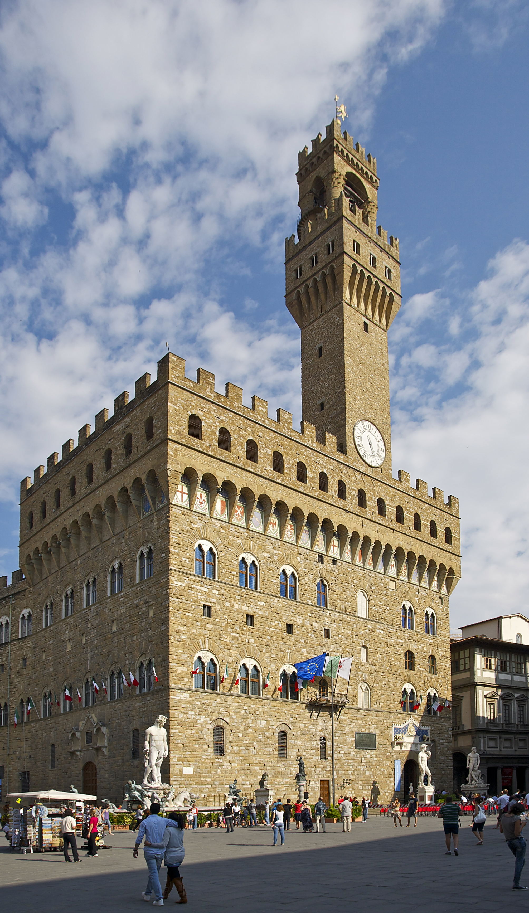 Palazzo Vecchio in Florence, as seen from Piazza della Signoria